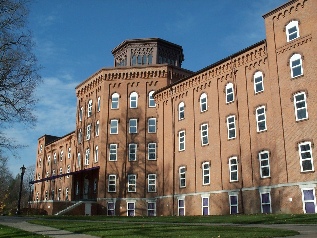 A photo of a brick building